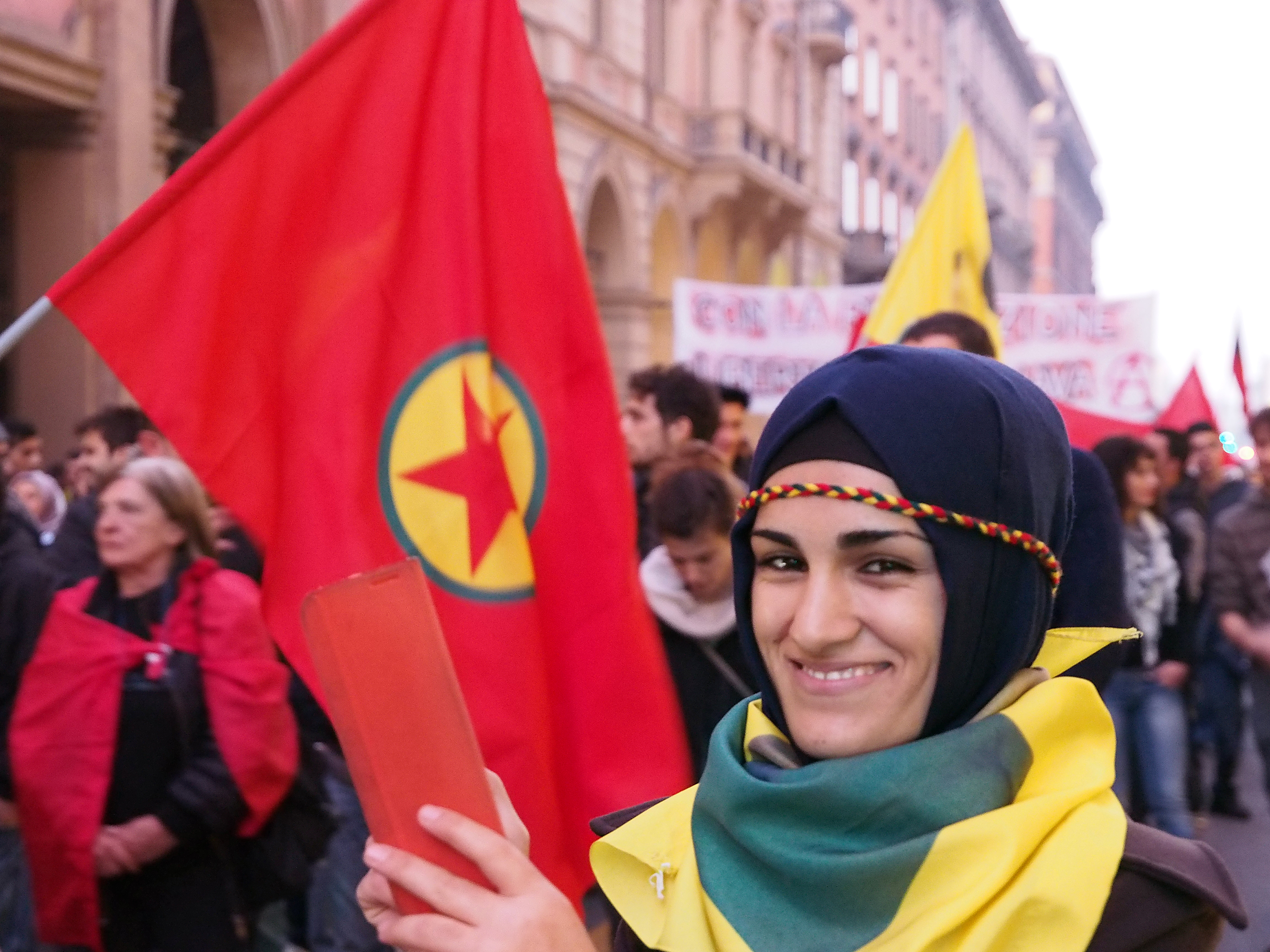 Kurdish protests against Kobane siege of ISIL in Bologna, Italy on Global day for Kobane. November 1st 2014.